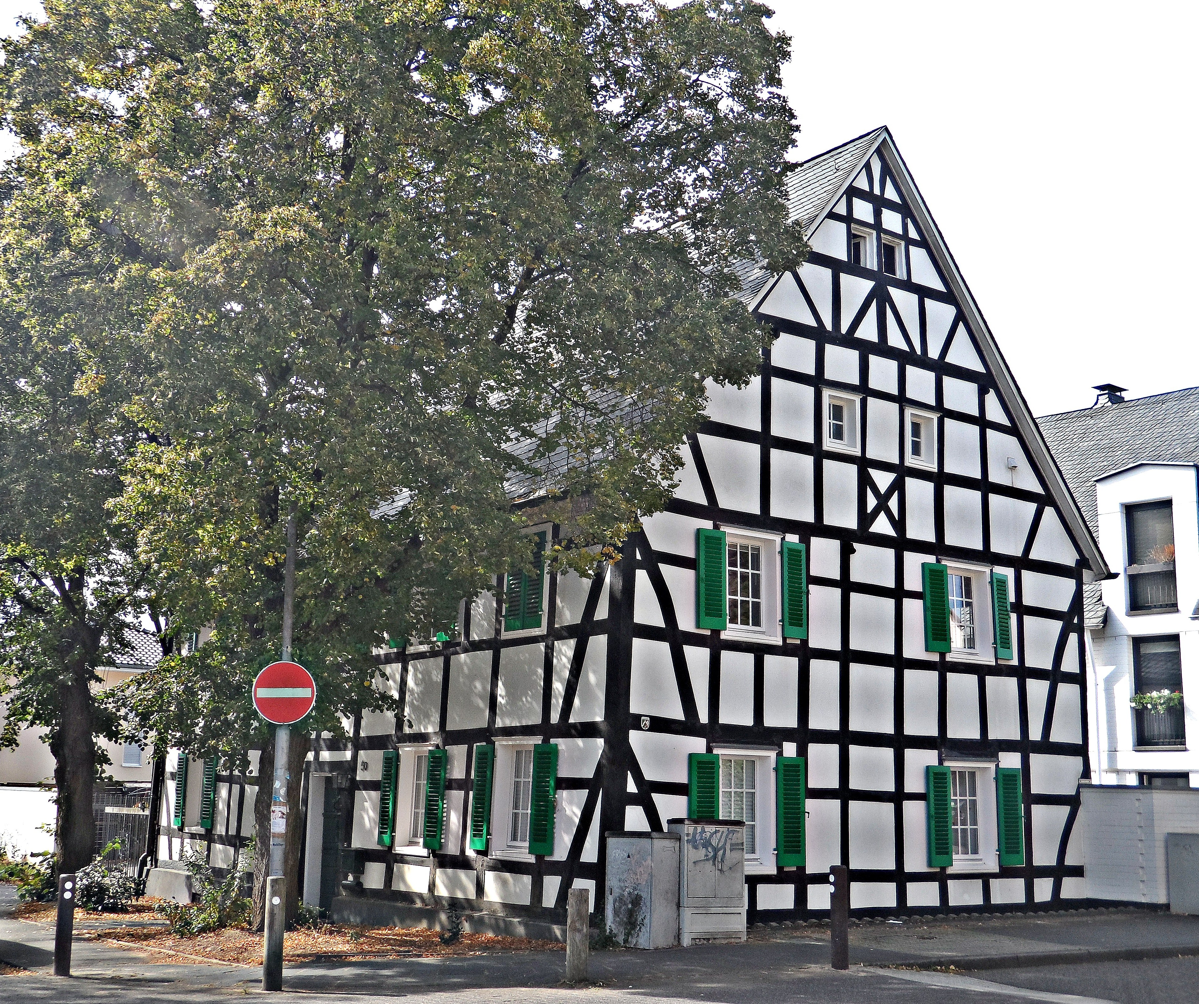 This is a photograph of an architectural monument., no. 0